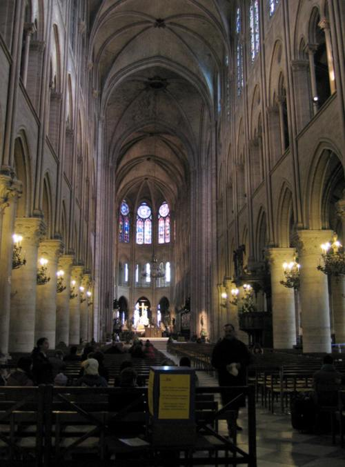 Interior of Notre-Dame de Paris.